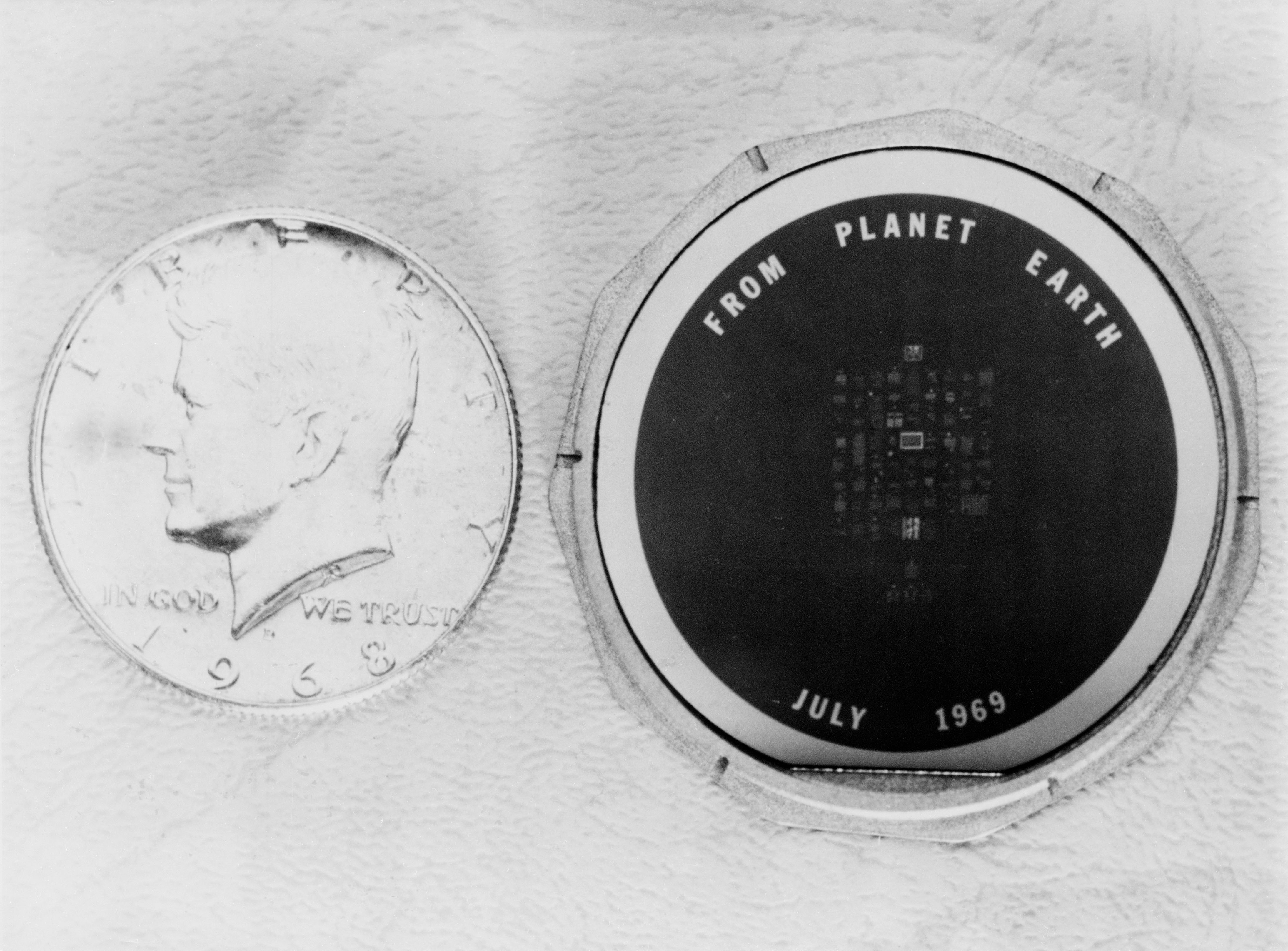 Closeup view of the one and one-half inch silicon disc which will be left on the moon by the Apollo 11 astronauts. The disc bears meassages of goodwill from heads of state of many nations. The process used to make this wafer is the same as that used to manufacture integrated circuits for electronic equipment. The Kennedy half-dollar illustrates the relative size of the memorial disc.